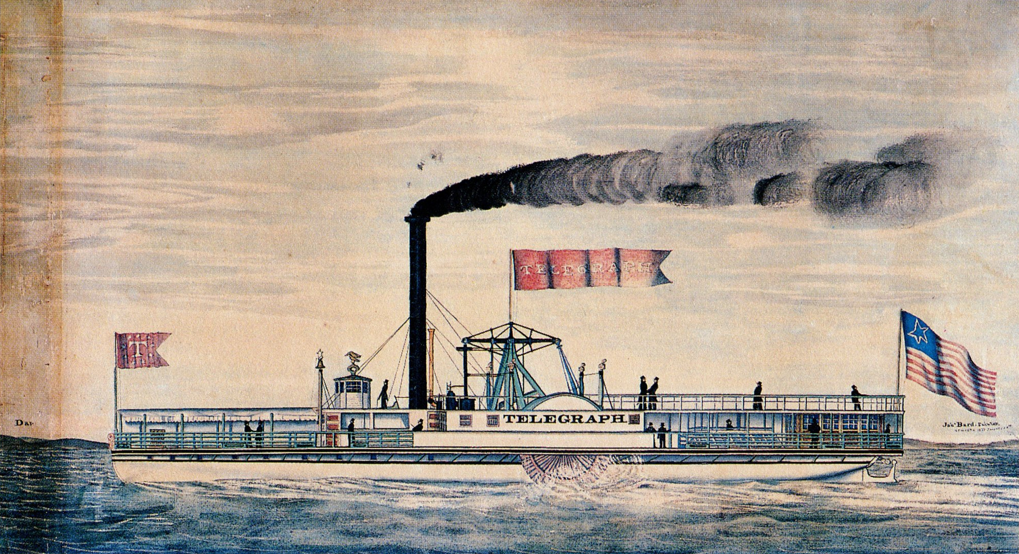 Telegraph, 1837 Hudson River sidewheel steamer, watercolor on paper by James Bard.